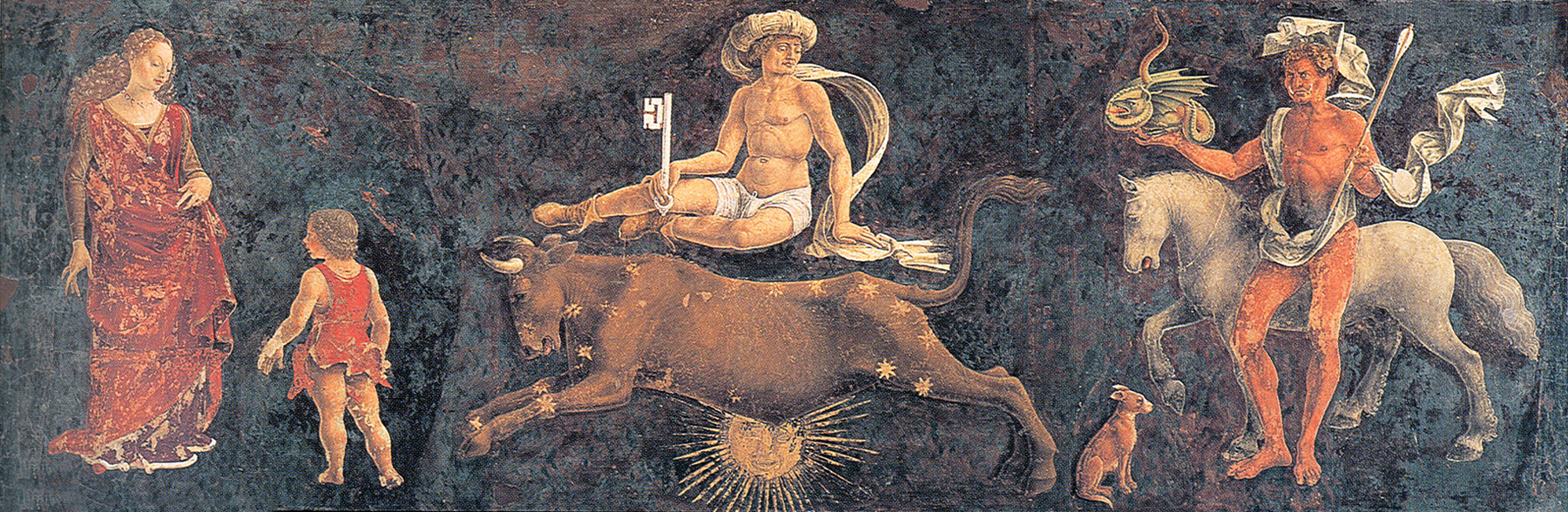 various Ferrarese artist Allegory of April Fresco Palazzo Schifanoia, Ferrara